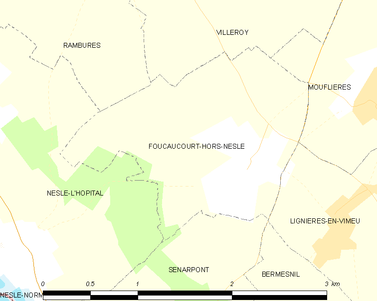 Map of French municipality Foucaucourt-Hors-Nesle